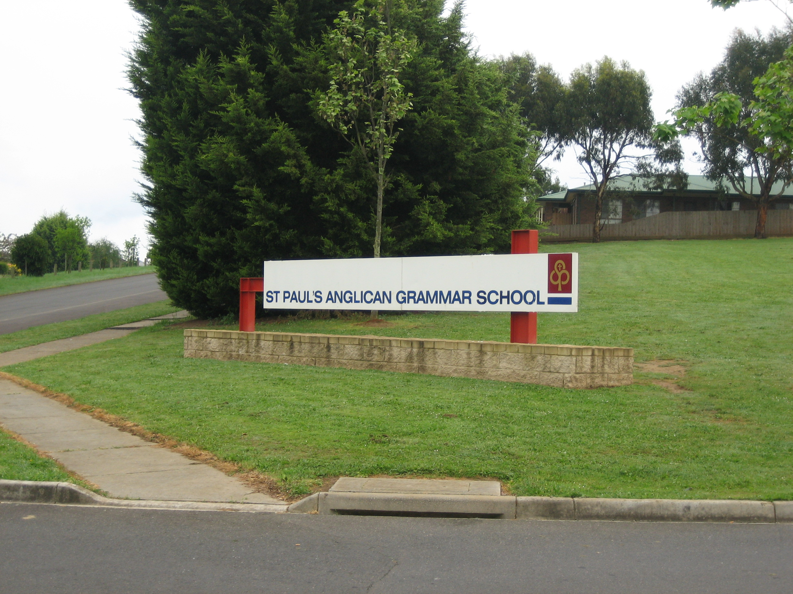 St Paul's AGS sign at the entrance